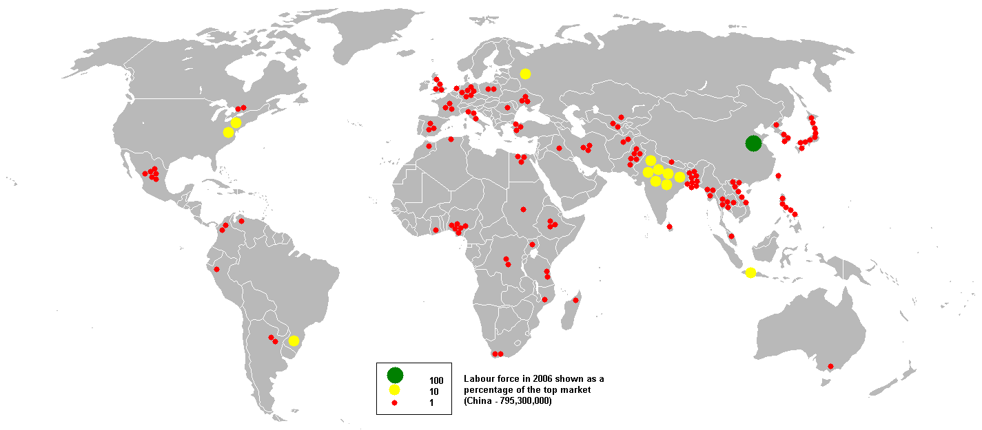 This bubble map shows the global distribution of labor force in 2006 as a percentage of the top market (China - 795,300,000). This map is consistent with incomplete set of data too as long as the top producer is known. It resolves the accessibility issues faced by colour-coded maps that may not be properly rendered in old computer screens. Data was extracted on 20th December 2007 from Based on :Image:BlankMap-World.png